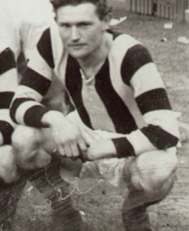 Photograph of Jim Shanahan from 1924-1926